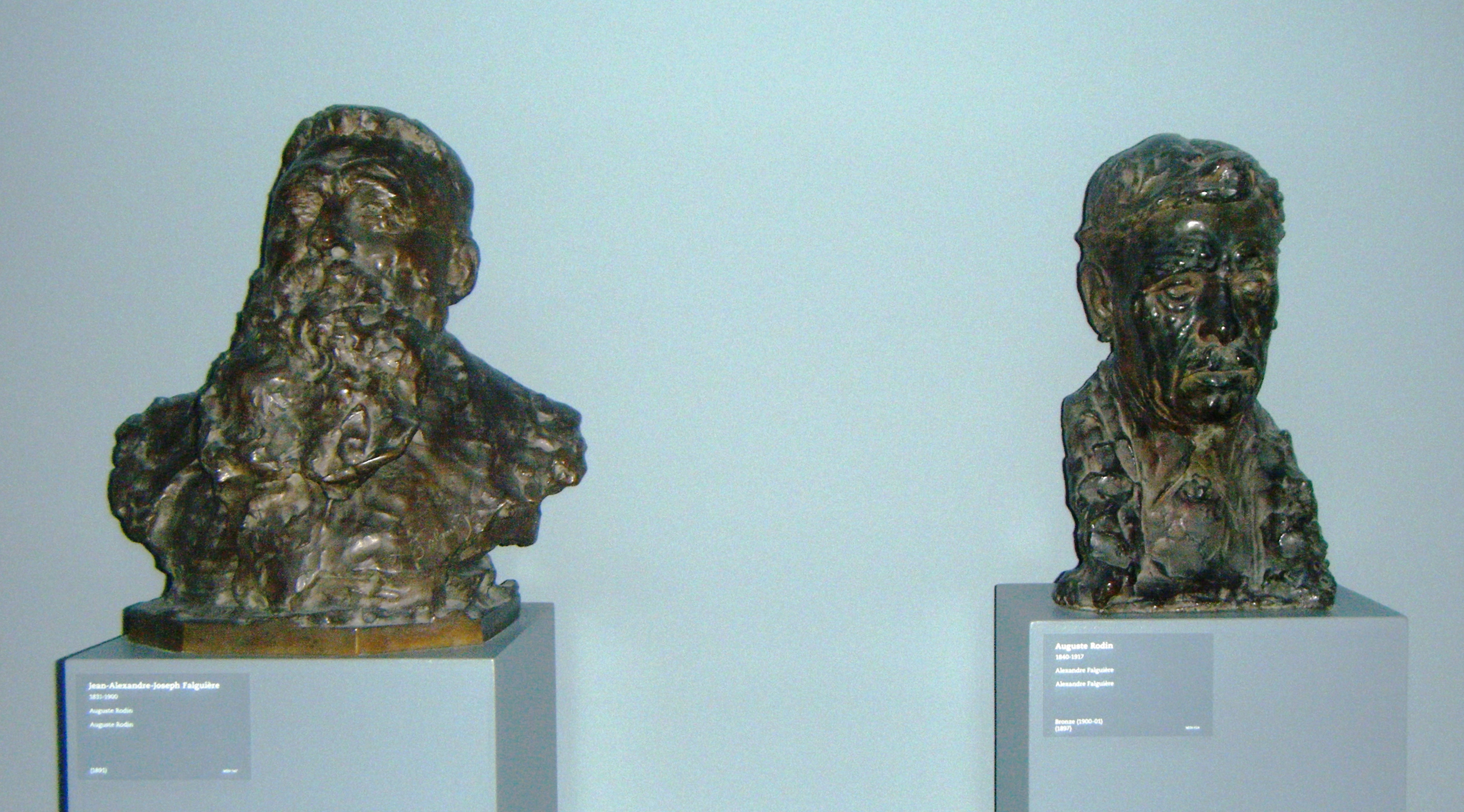 Busts of Auguste Rodin by Alexandre Falguière and of Alexandre Falguière by Auguste Rodin, Ny Carlsberg Glyptotek, Copenhagen, Denmark.